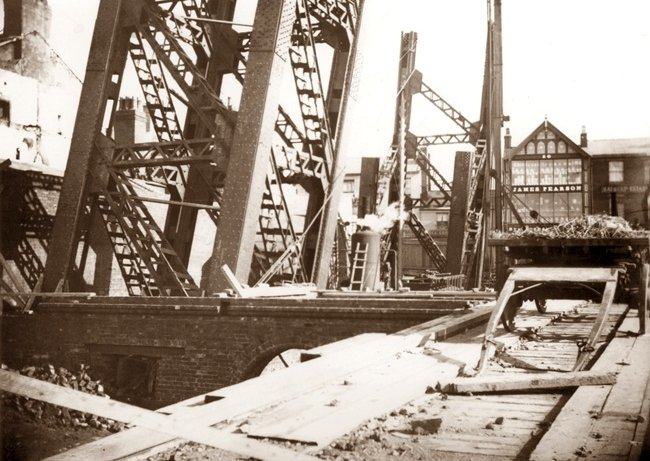 Early days constructing Blackpool Tower 1891